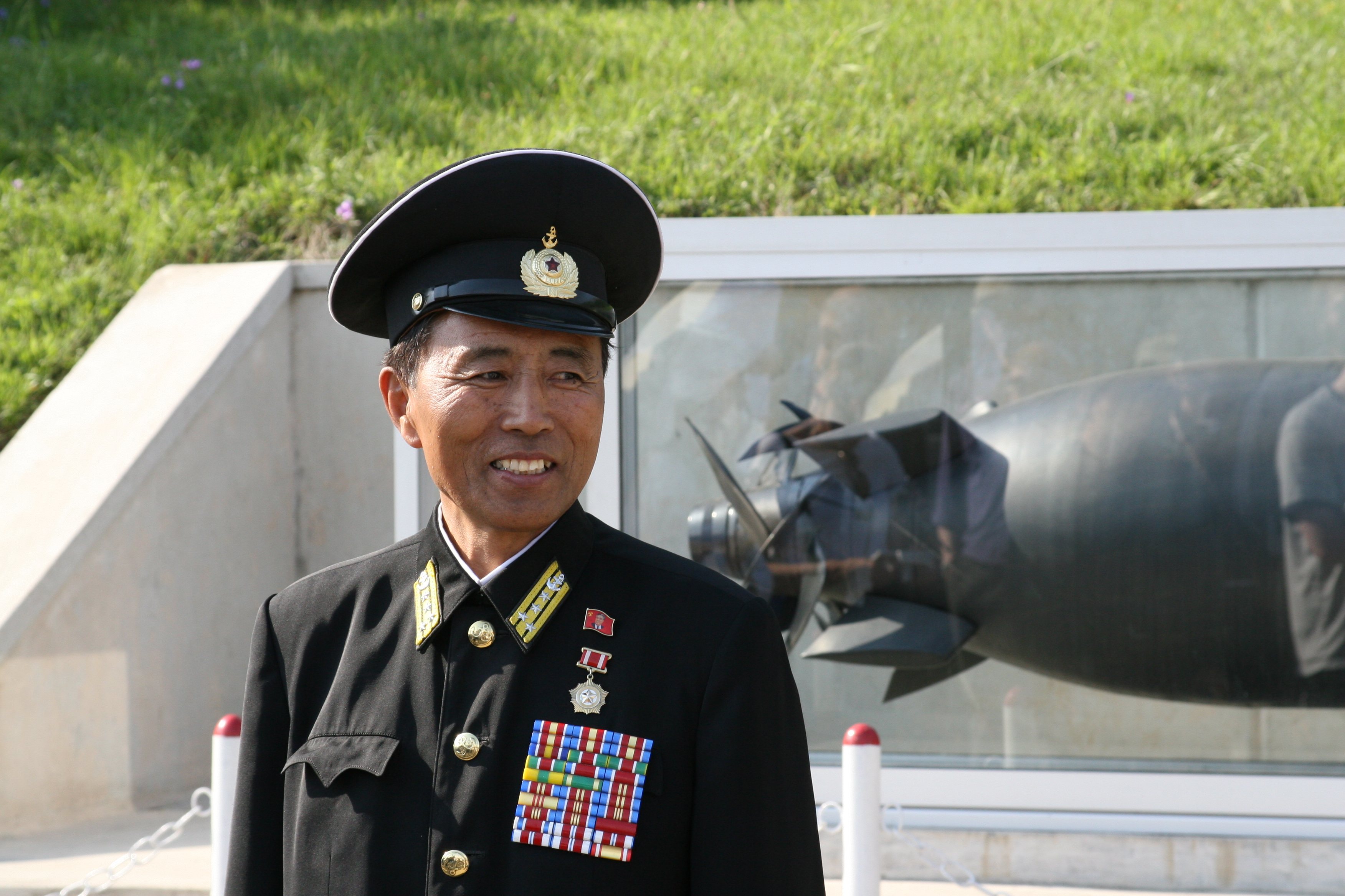 A North Korean guide (naval Captain) next to the USS Pueblo